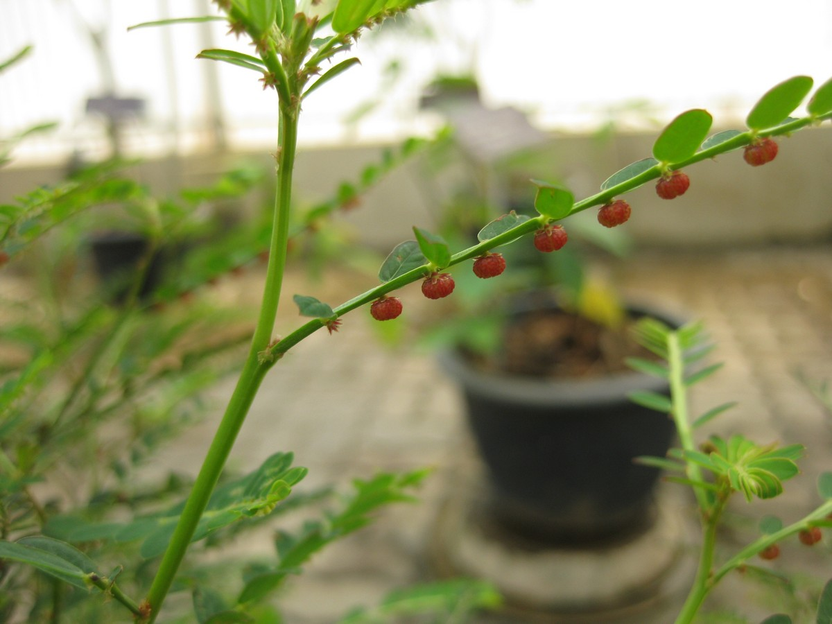 Photographed at the Queen Sirikit Botanic Garden (Chiang Mai Province, Thailand) in March